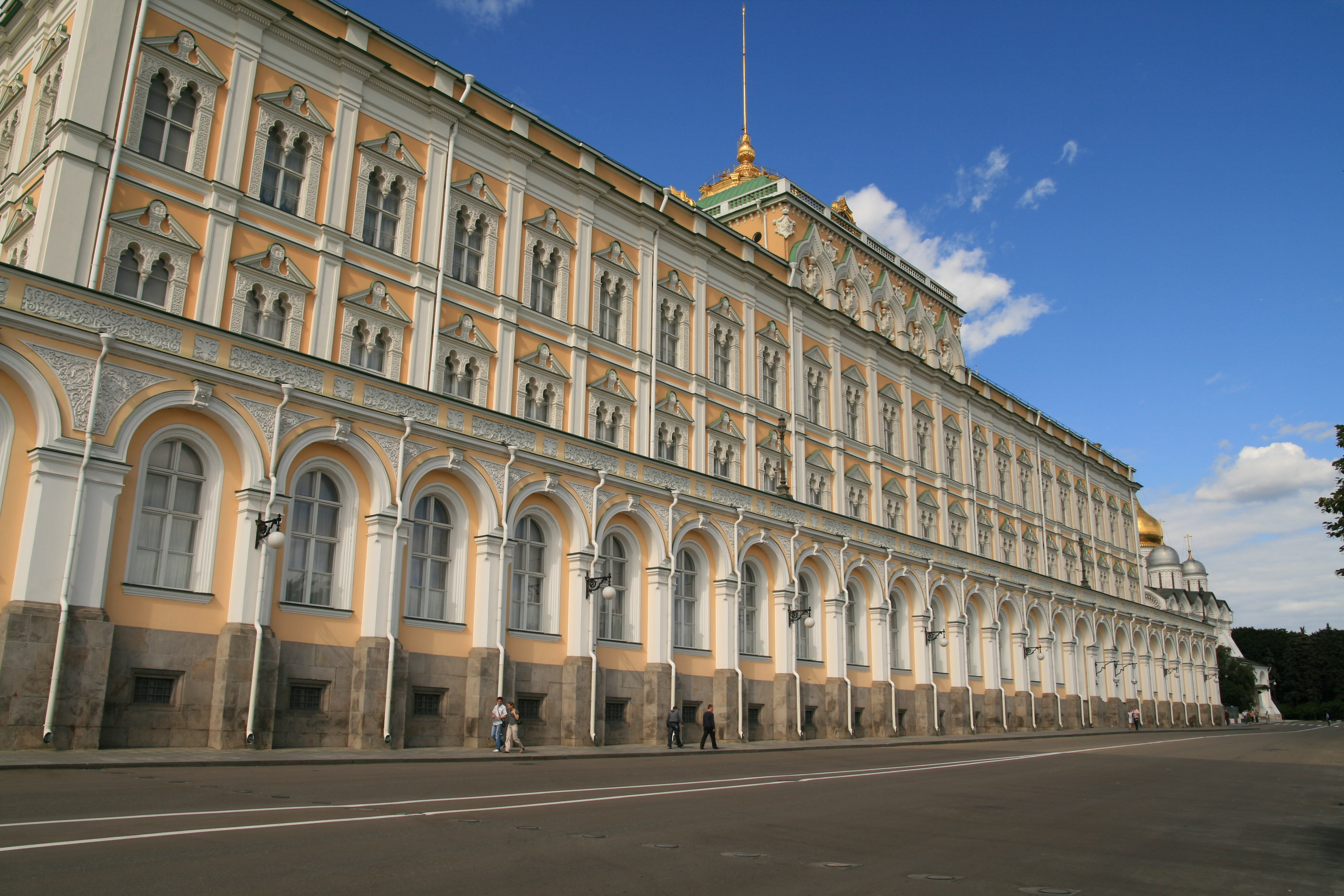 The impressive front of the Grand Kremlin Palace is hard to capture, even with a good wide angle lens.